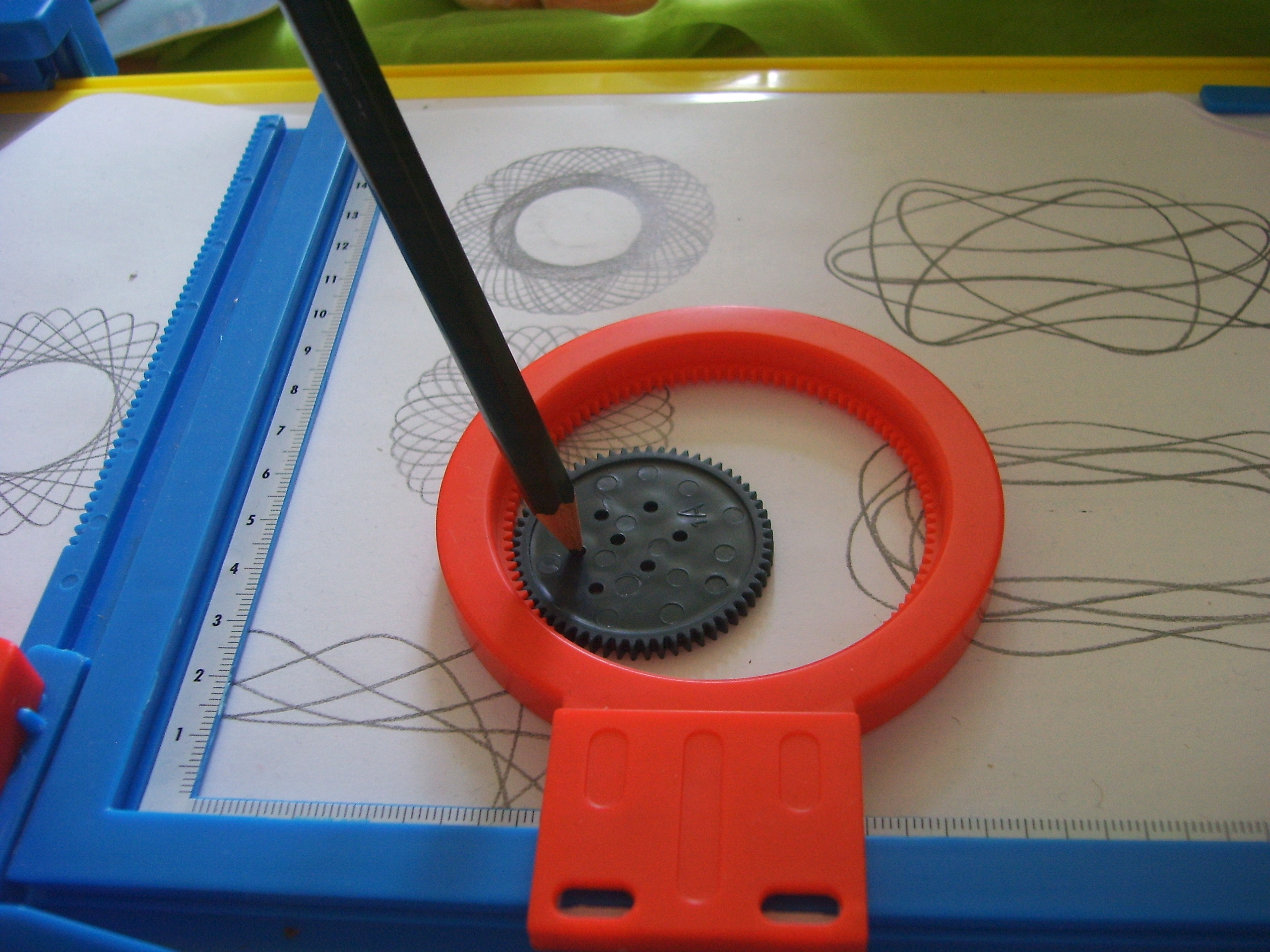 Spirograph, not Original